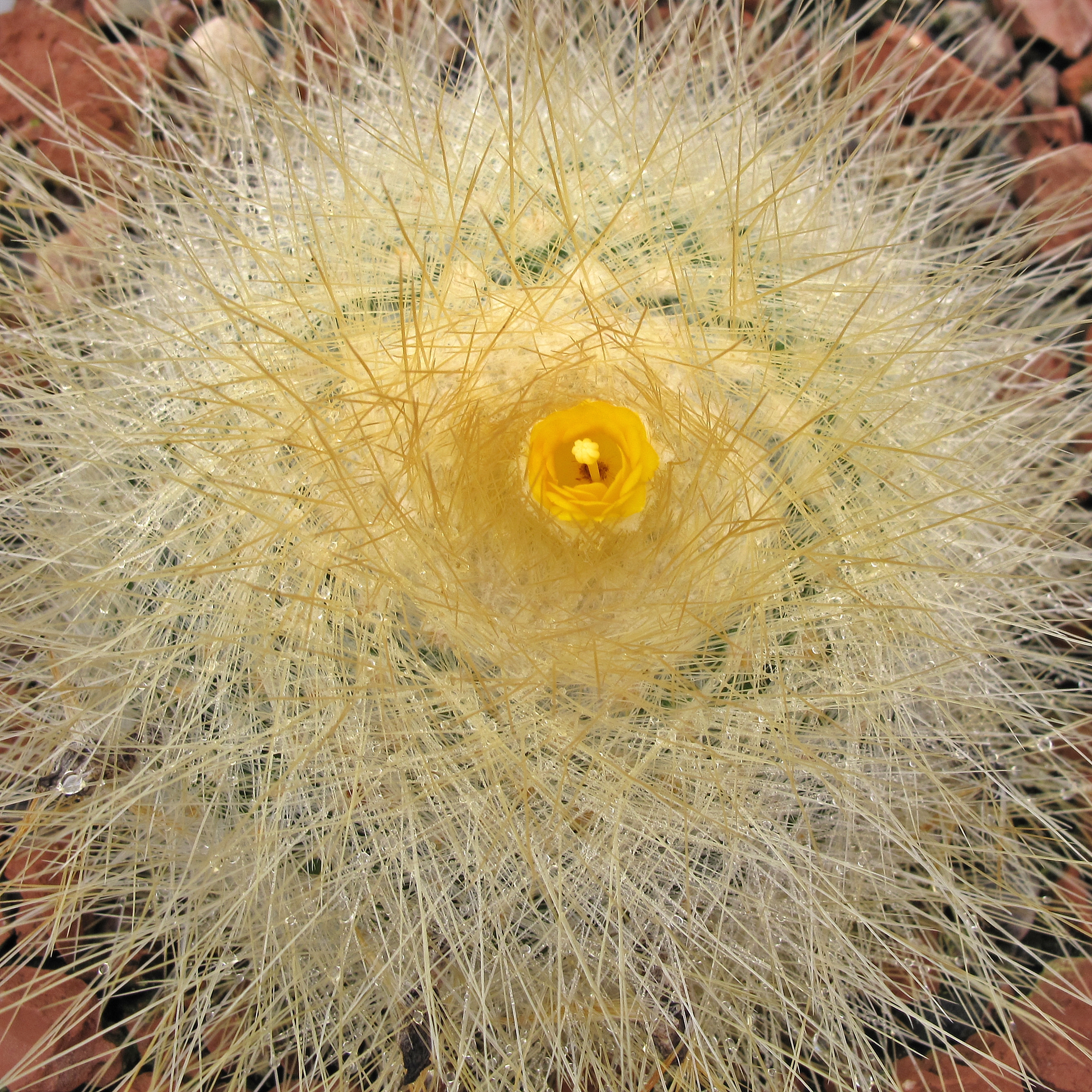 Parodia chrysacanthion